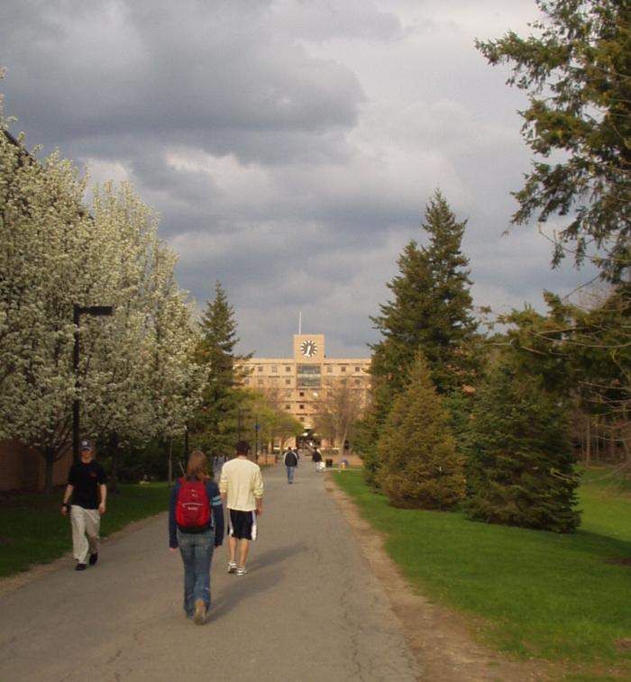 "A view down RIT's Quarter Mile walkway. Kate Gleason Hall is visible in the background". (Photo taken on the Quarter Mile, from the segment next to the SLC and gym.)